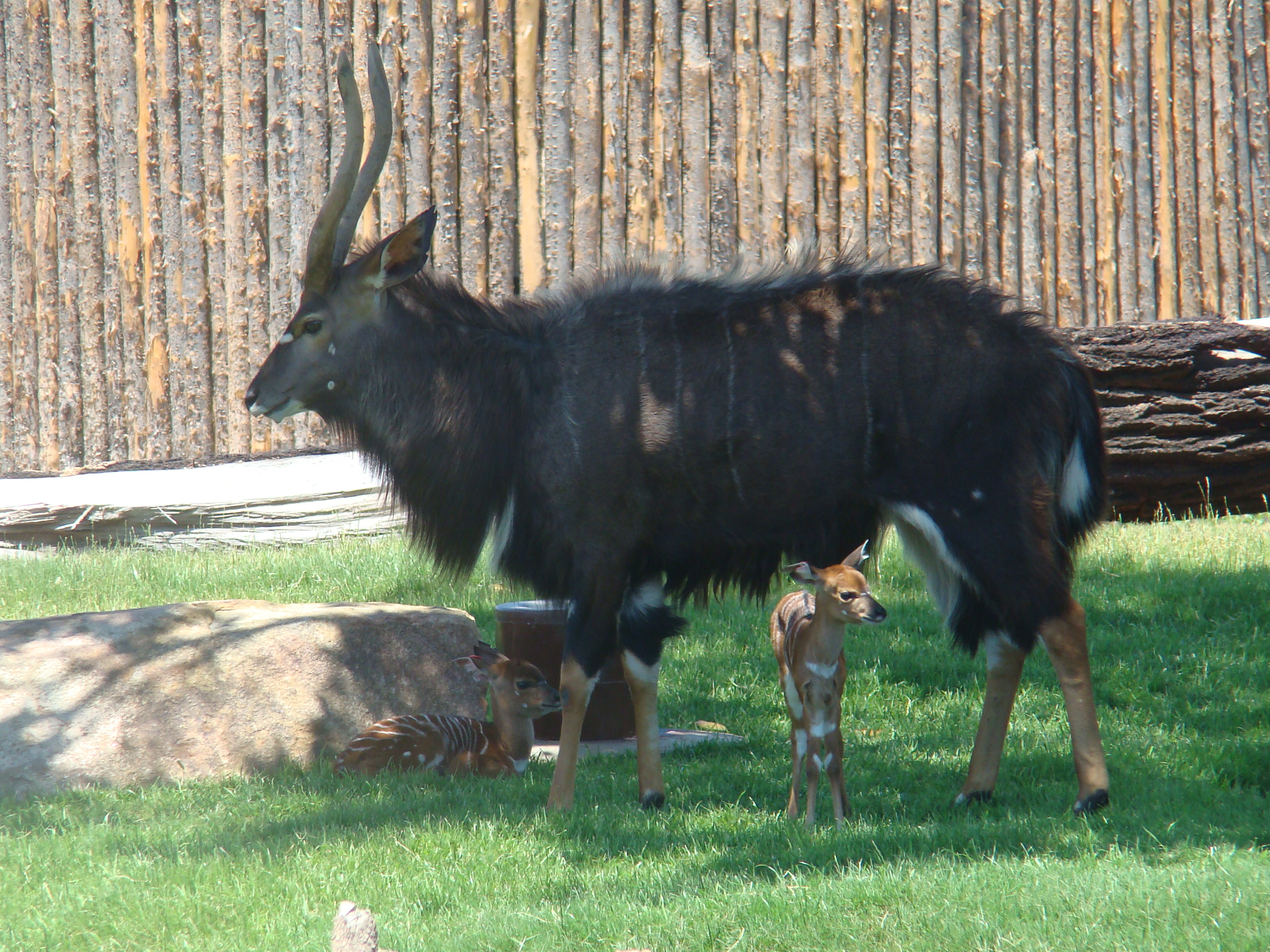 Male nyala and twin daughters (first recorded twins in captivity) at the San Diego Wild Animal Park